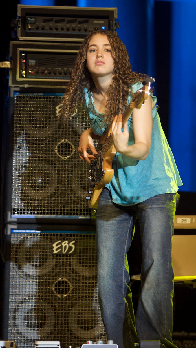 Jeff Beck at Jazz à Juan 2009 featuring Tal Wilkenfeld as bass guitarist